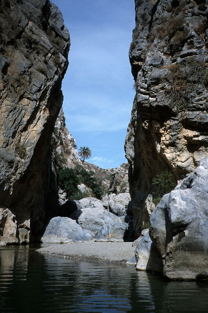 Kourtaliotiko, bottleneck